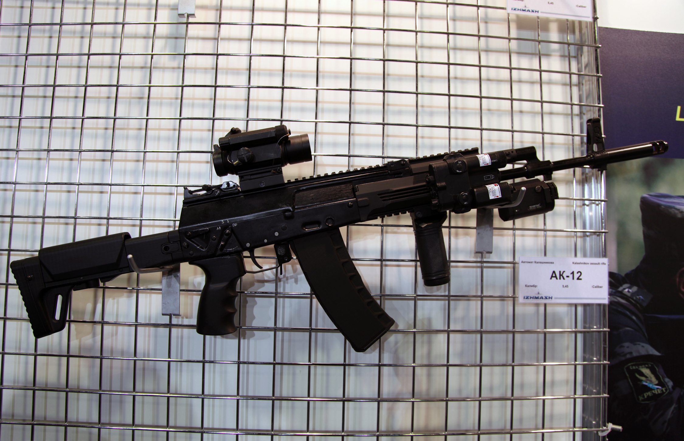 5.45mm AK-12 rifle - Engineering technologies international forum - 2012